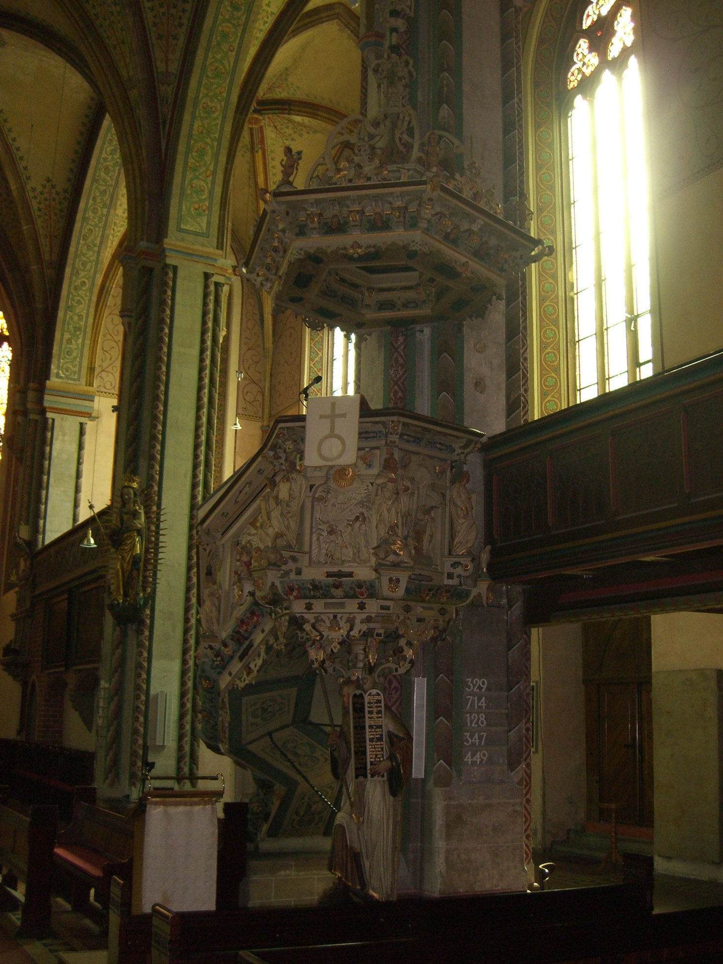 Evangelical-lutheran church "Saint Stephen" (St. Stephani) in Helmstedt: renaissance pulpit (manufactured in 1596).